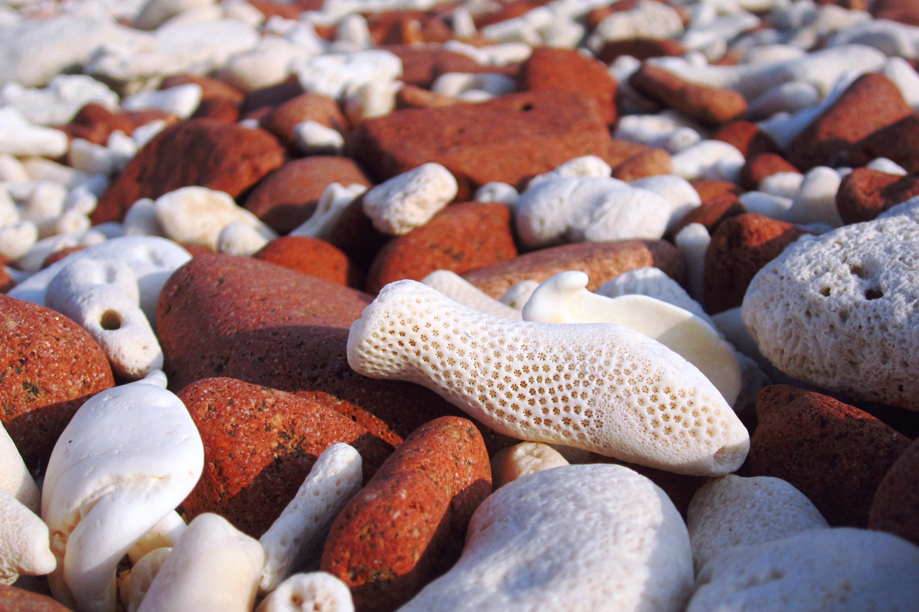 Di Hamri coral beach